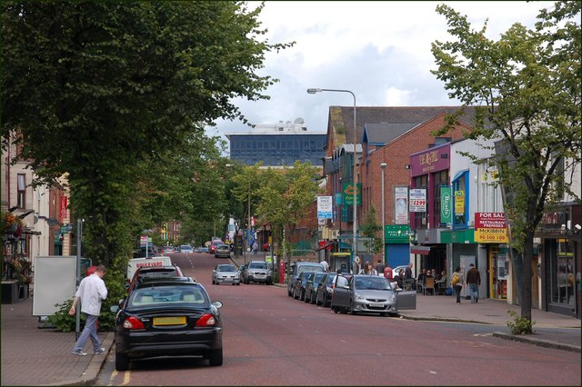 Botanic Avenue, Belfast Botanic Avenue - where cultchie meets China - where town meets gown and gown meets town - where backpackers dive - where revellers revel. It’s also not a bad spot for eating out and the War on Want second-hand bookshop . . . and the train to Bangor. (The view is towards Shaftesbury Square).